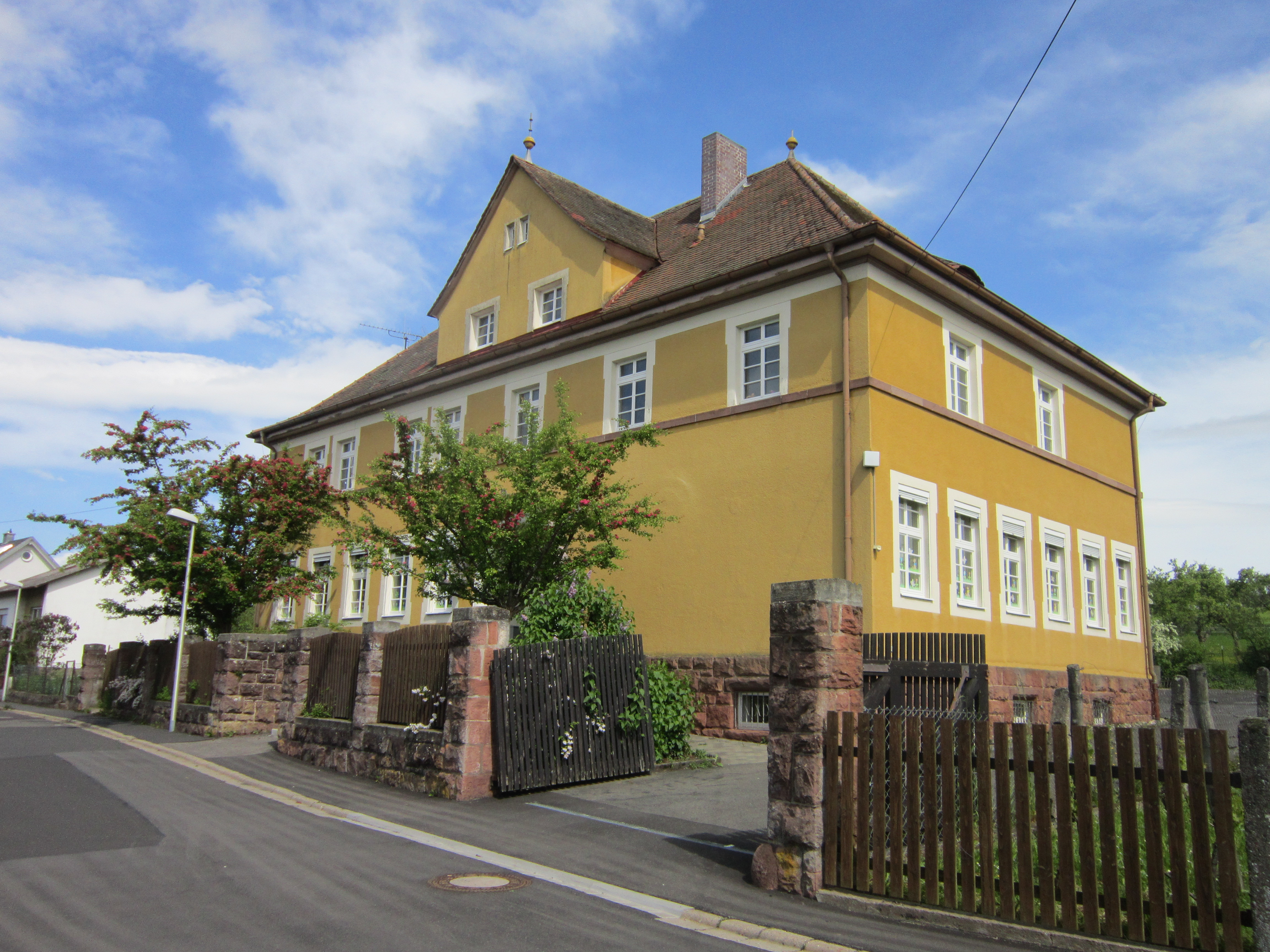 Elementary school (built around 1910) in Poppenroth, a quarter of the German spa town of Germany (Lower Franconia, Bavaria).